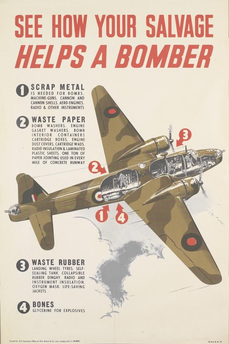 See How Your Salvage Helps a Bomber whole: the image occupies the majority, with the title separate and positioned in the upper quarter, in orange. The text is separate and placed in the upper left and lower left, in black. All set against a white background. image: a depiction of a RAF Vickers Wellington bomber aircraft in flight. Cut-away sections in the fuselage show the inside of the aircraft and the crew. Orange labels indicate areas of the boat where salvaged materials were used. text: SEE HOW YOUR SALVAGE HELPS A BOMBER 1 SCRAP METAL IS NEEDED FOR BOMBS, MACHINE-GUNS, CANNON AND CANNON SHELLS, AERO-ENGINES, RADIO AND OTHER INSTRUMENTS 2 WASTE PAPER BOMB WASHERS, ENGINE GASKET WASHERS, BOMB INTERIOR CONTAINERS CARTRIDGE BOXES, ENGINE DUST COVERS, CARTRIDGE WADS, RADIO INSULATION AND LAMINATED PLASTIC SHEETS, ONE TON OF PAPER JOINTING USED IN EVERY MILE CONCRETE RUNWAY 3 2 1 4 3 WASTE RUBBER LANDING WHEEL TYRES, SELF-SEALING TANK, COLLAPSIBLE RUBBER DINGHY, RADIO AND INSTRUMENT INSULATION, OXYGEN MASK, LIFE-SAVING JACKETS 4 BONES GLYCERINE FOR EXPLOSIVES Printed for H.M. Stationery Office by Wm. Brown and Co., Ltd., London, E.C.3.- 51-9937. M.O.S. AND R. 75